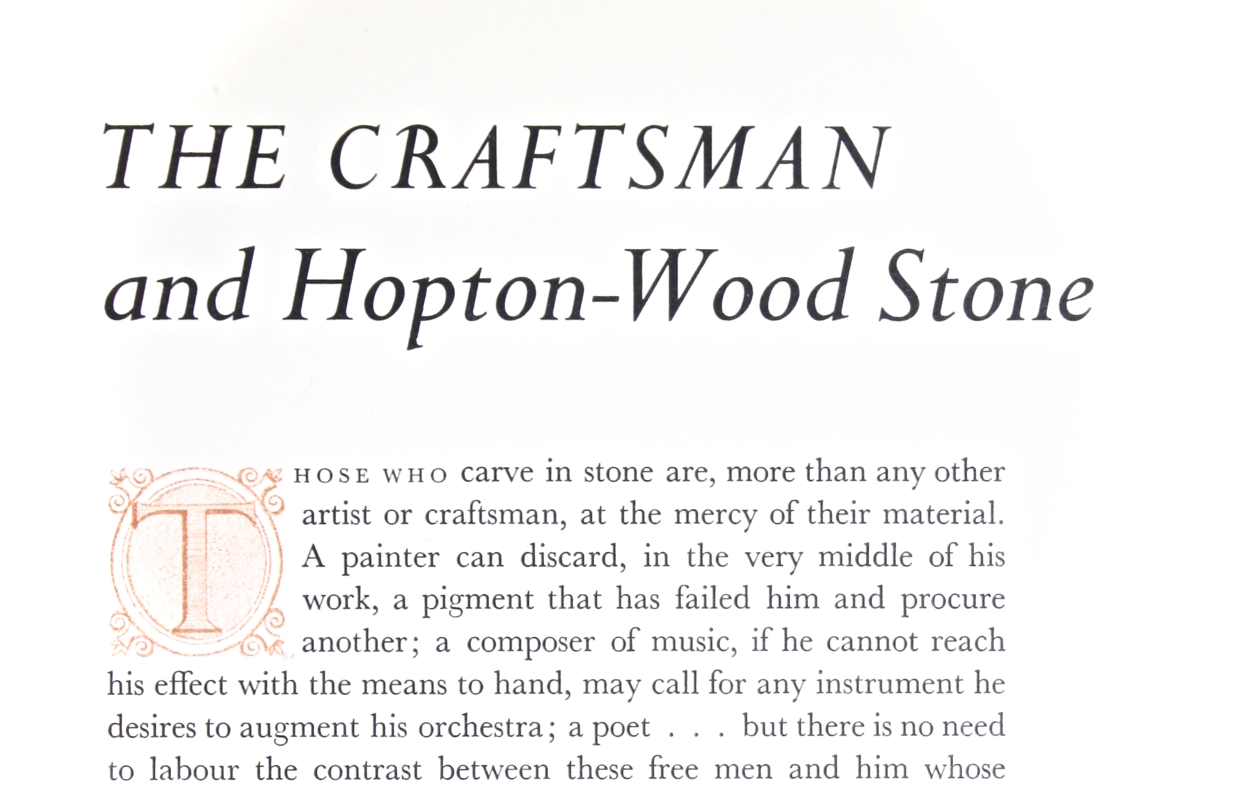 Picture from a publicity manual advertising Hopton Wood stone, a limestone often used by Eric Gill for his carvings.